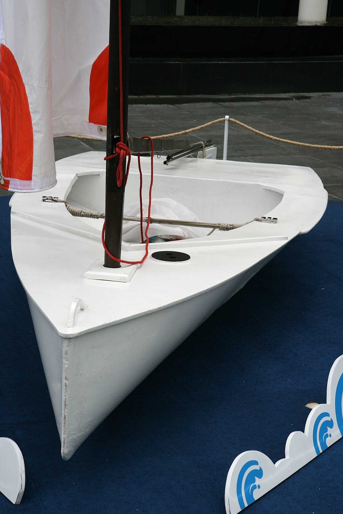 Dinghy Super Mod built according to the design by King Bhumibol, on public display at CentralWorld, Bangkok during 15-20 May 2007.